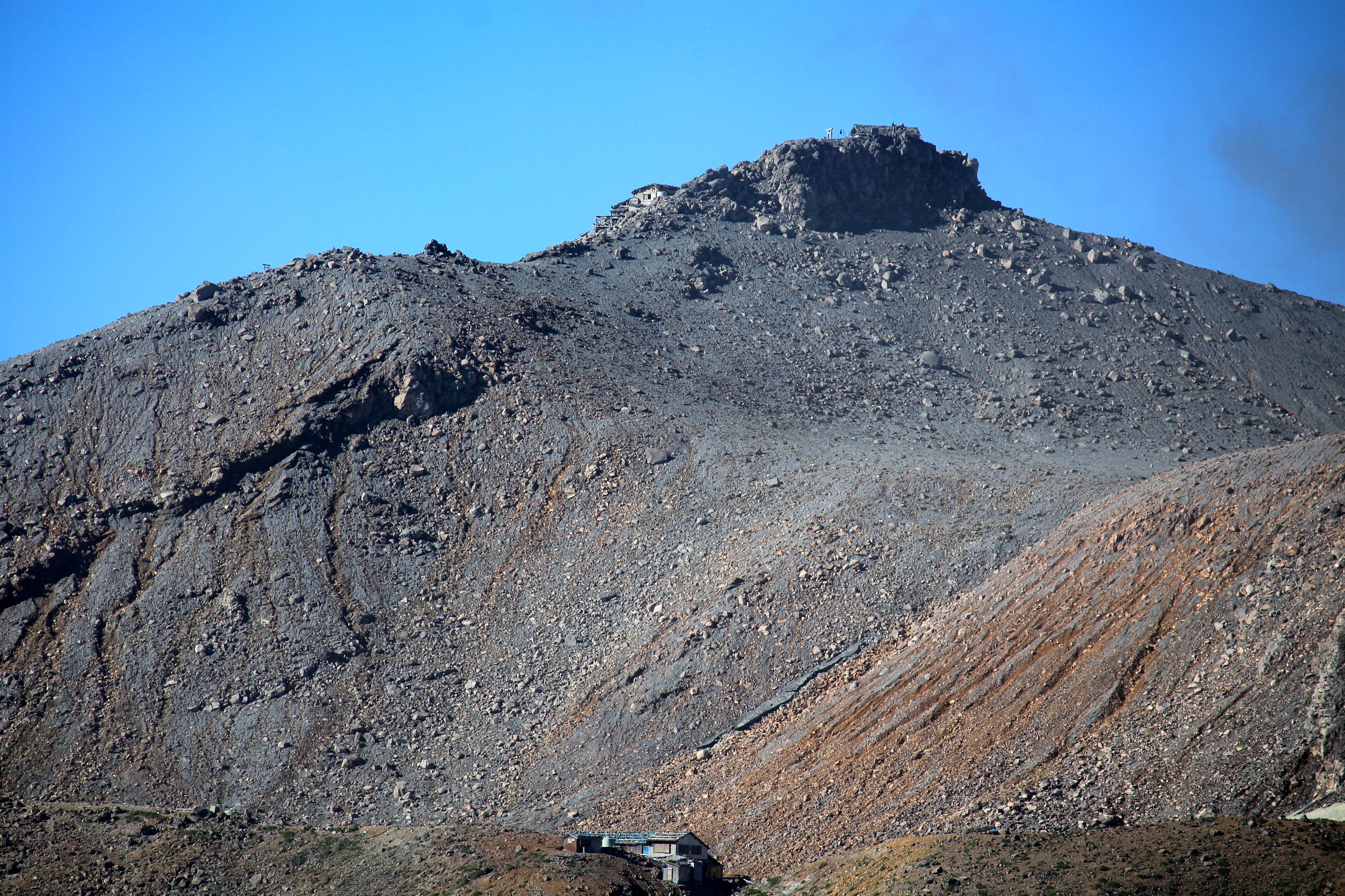 Kengamine of Mount Ontake seen from Mount Mamako in japan.